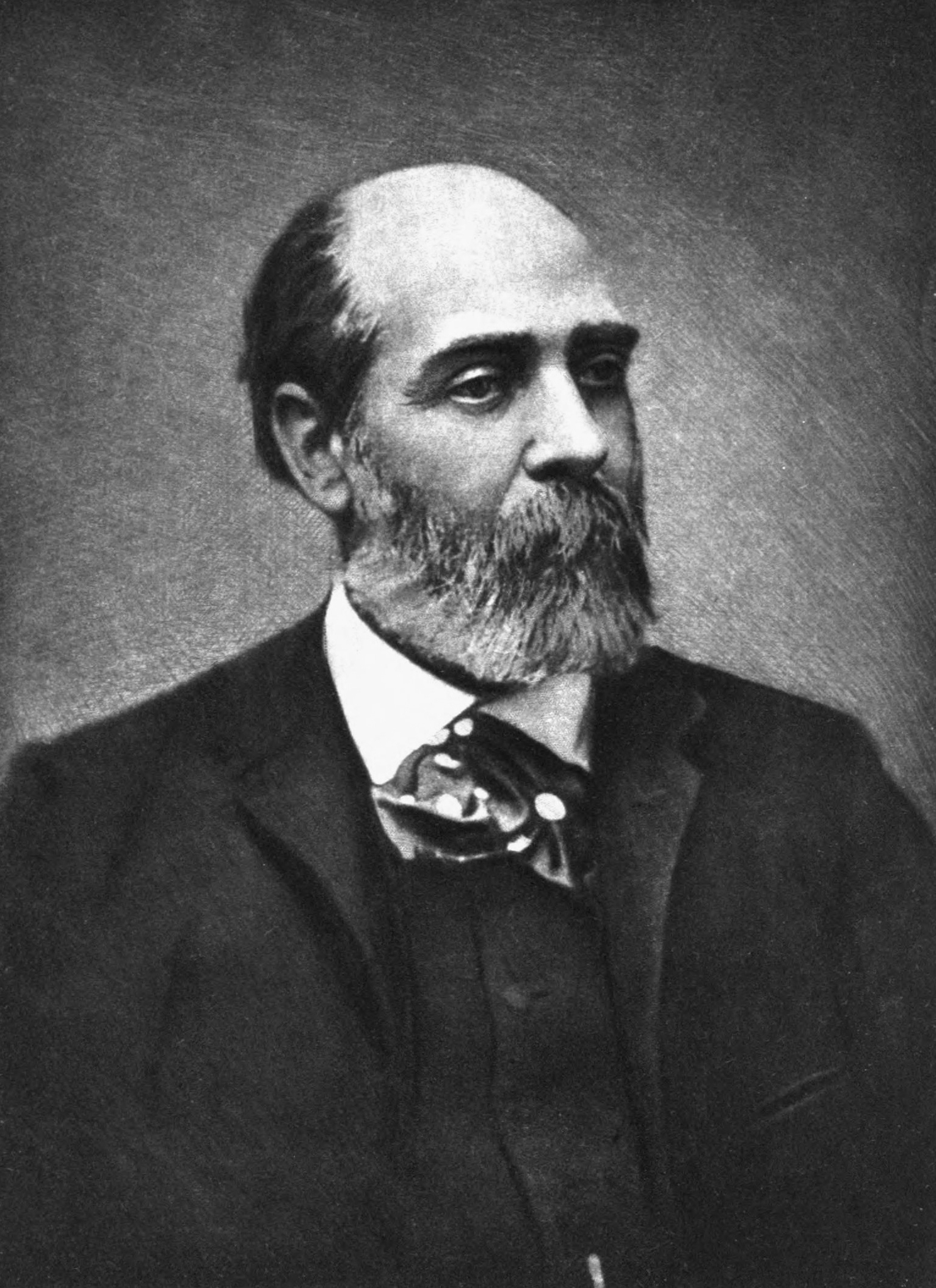 Hector Malot (French author, 1830-1907)